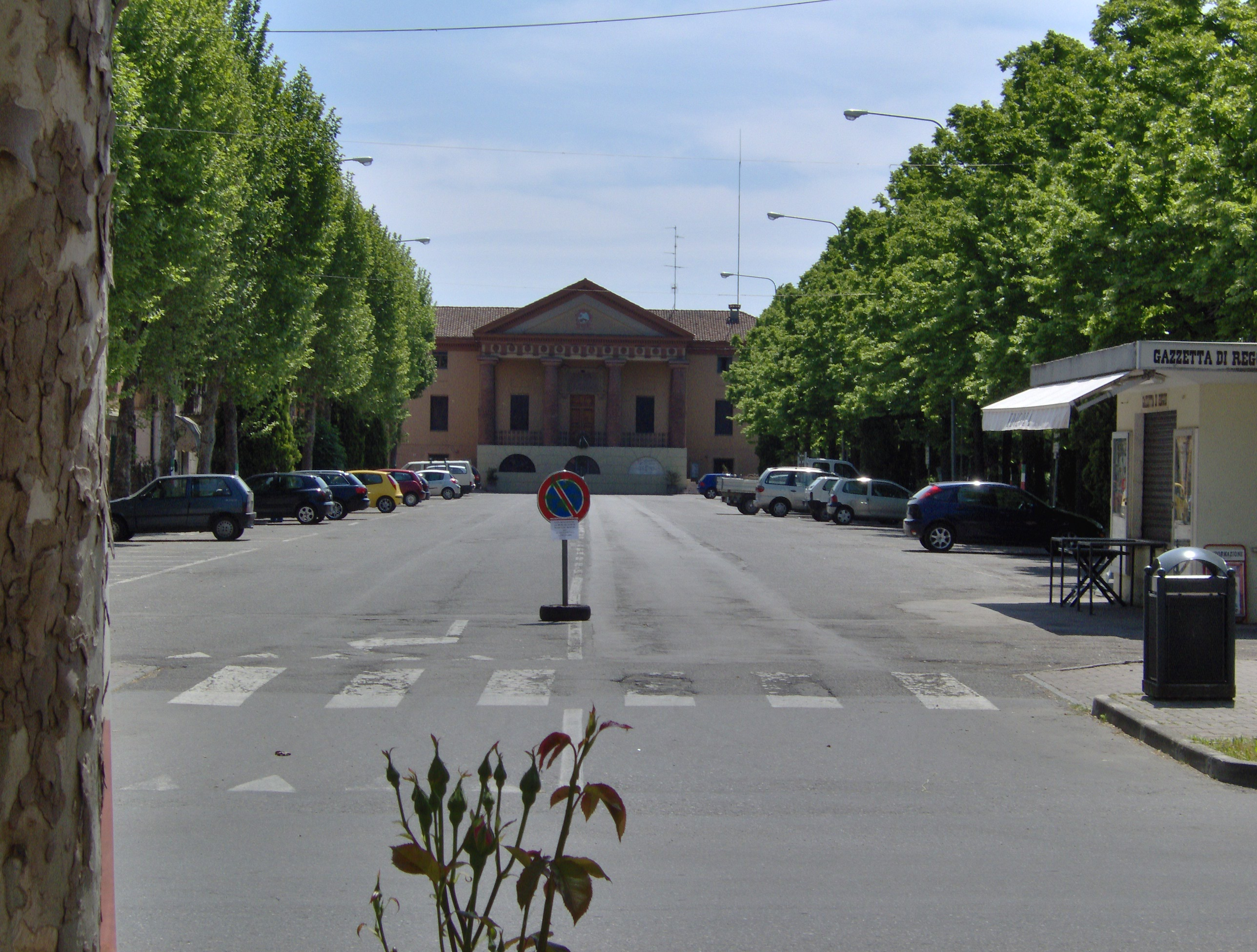 The city hall of Rio Saliceto, Province of Reggio Emilia, Emiglia-Romagna, Italy